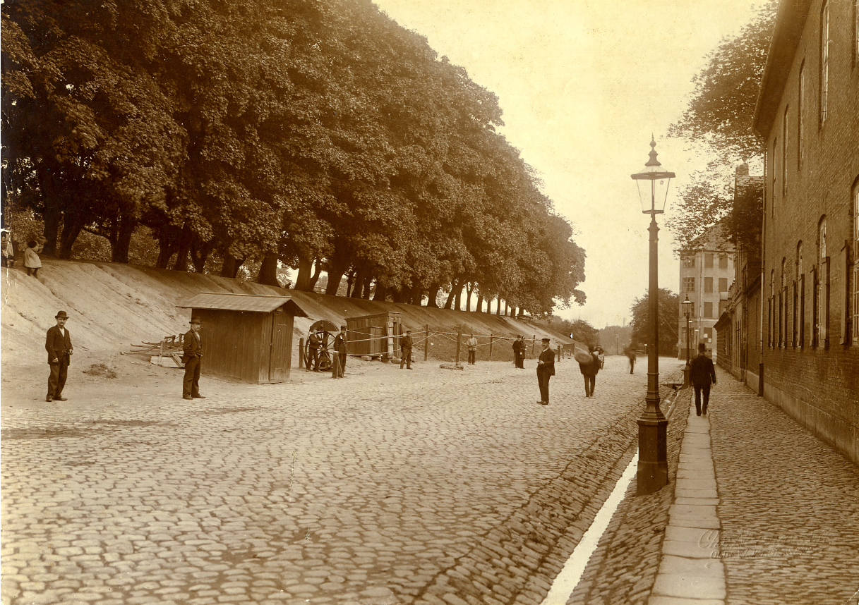 ster Voldgade in Copenhagen, Denmark